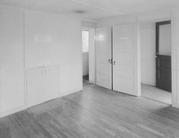 Houses for Britain. Living room looking towards front entrance, and left to kitchen entrance of prefabricated model house erected by the Federal Public Housing Authority at Scott Circle, Washington, D.C. of the type of temporary, emergency dwelling which it is planned to ship to Great Britain under lend-lease. Twenty-four feet square, it contains two bedrooms, living room, kitchen and bathroom digital file from intermediary roll film